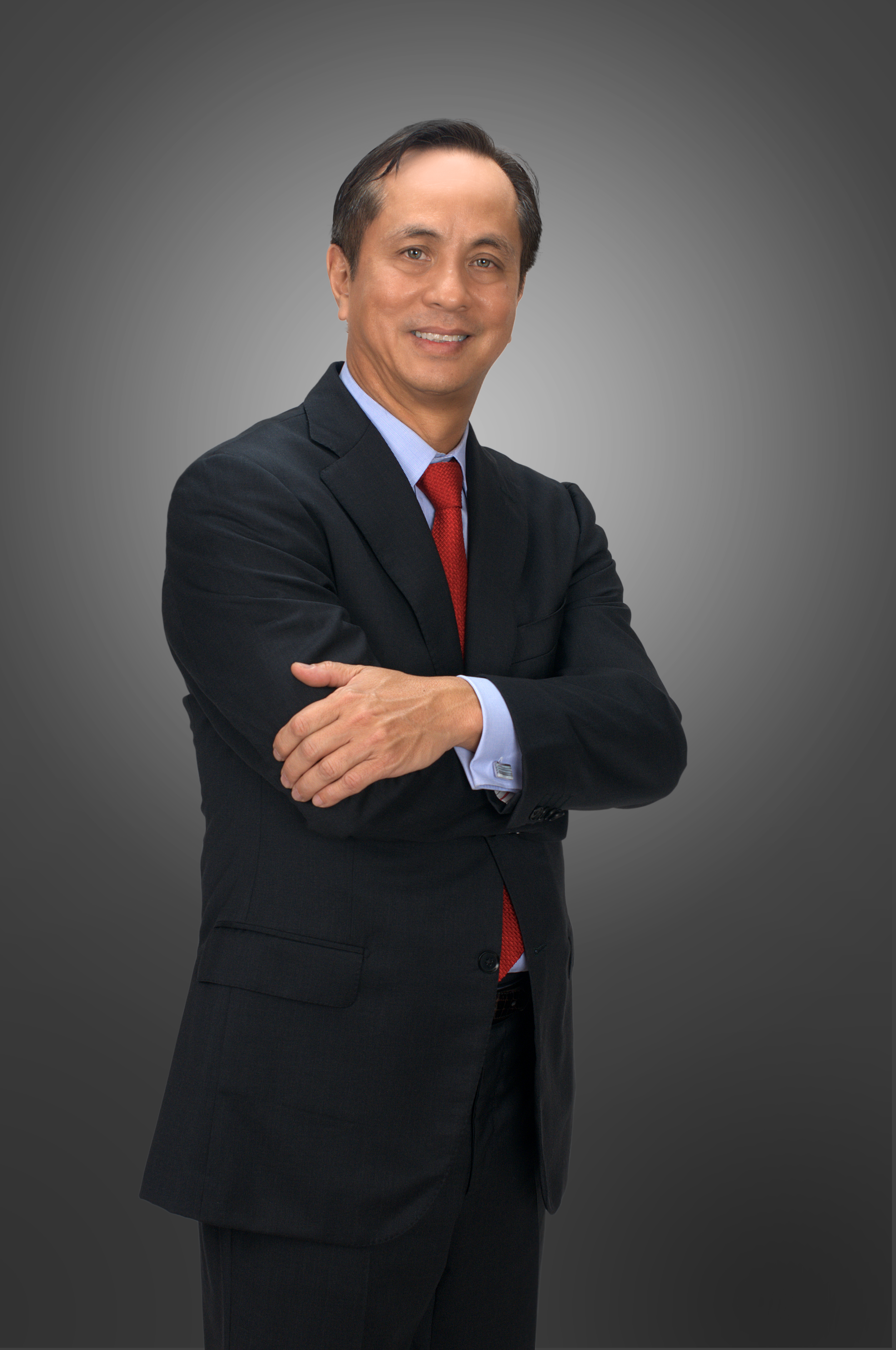 Eugenio Lopez, III is currently the chairman of ABS-CBN Corporation